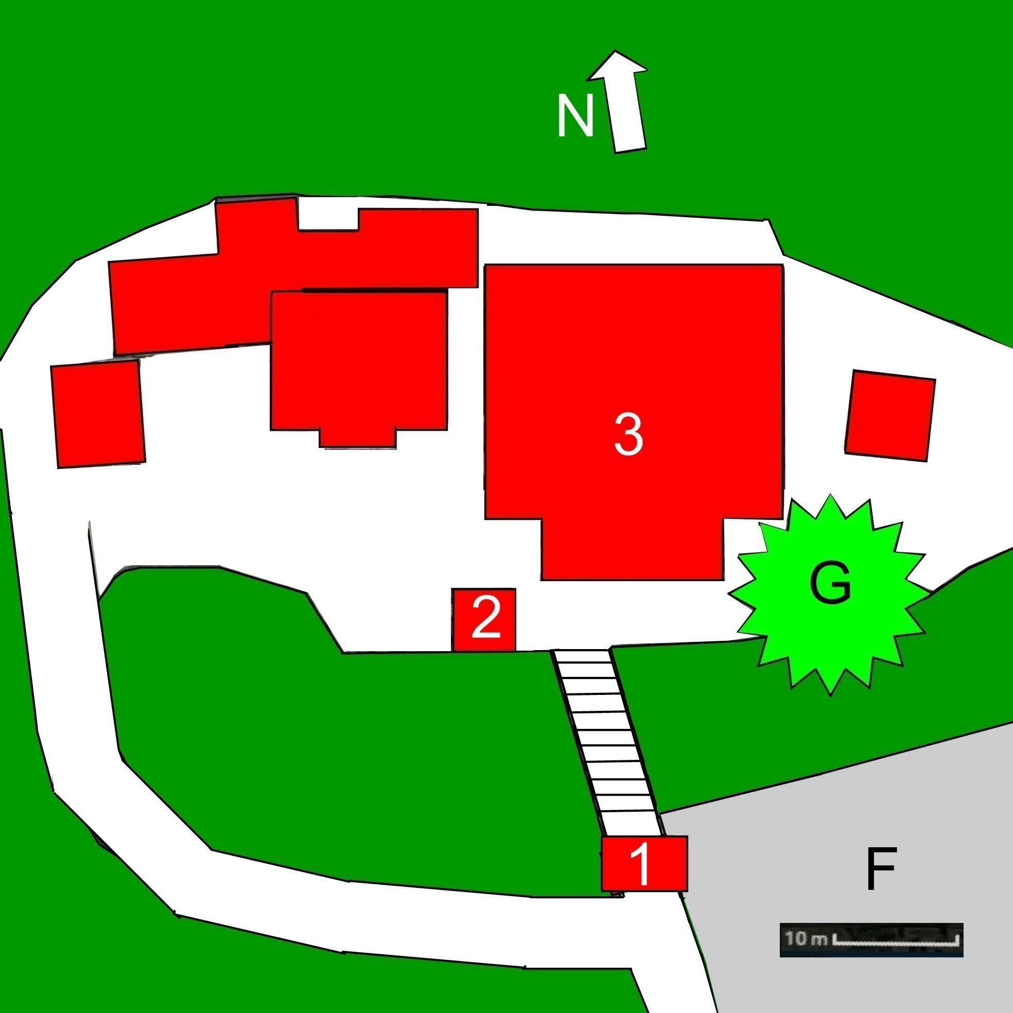 Layour of Amida-ji at Minamisôma, Fukushima Prefecture, Japan